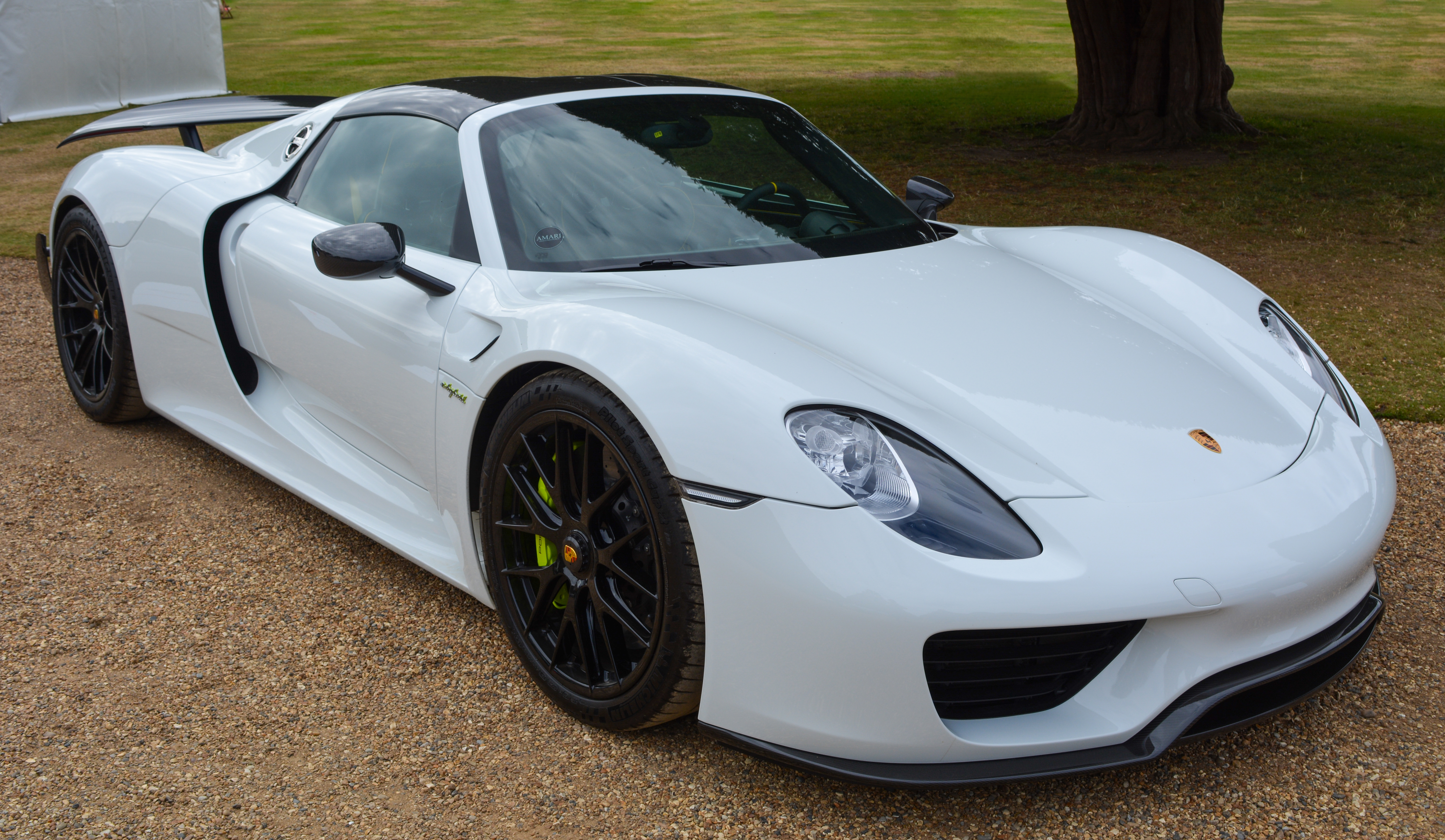 2015 Porsche 918 Spyder 4.6 Taken at the Concours d'Elegance Hampton Court 2019